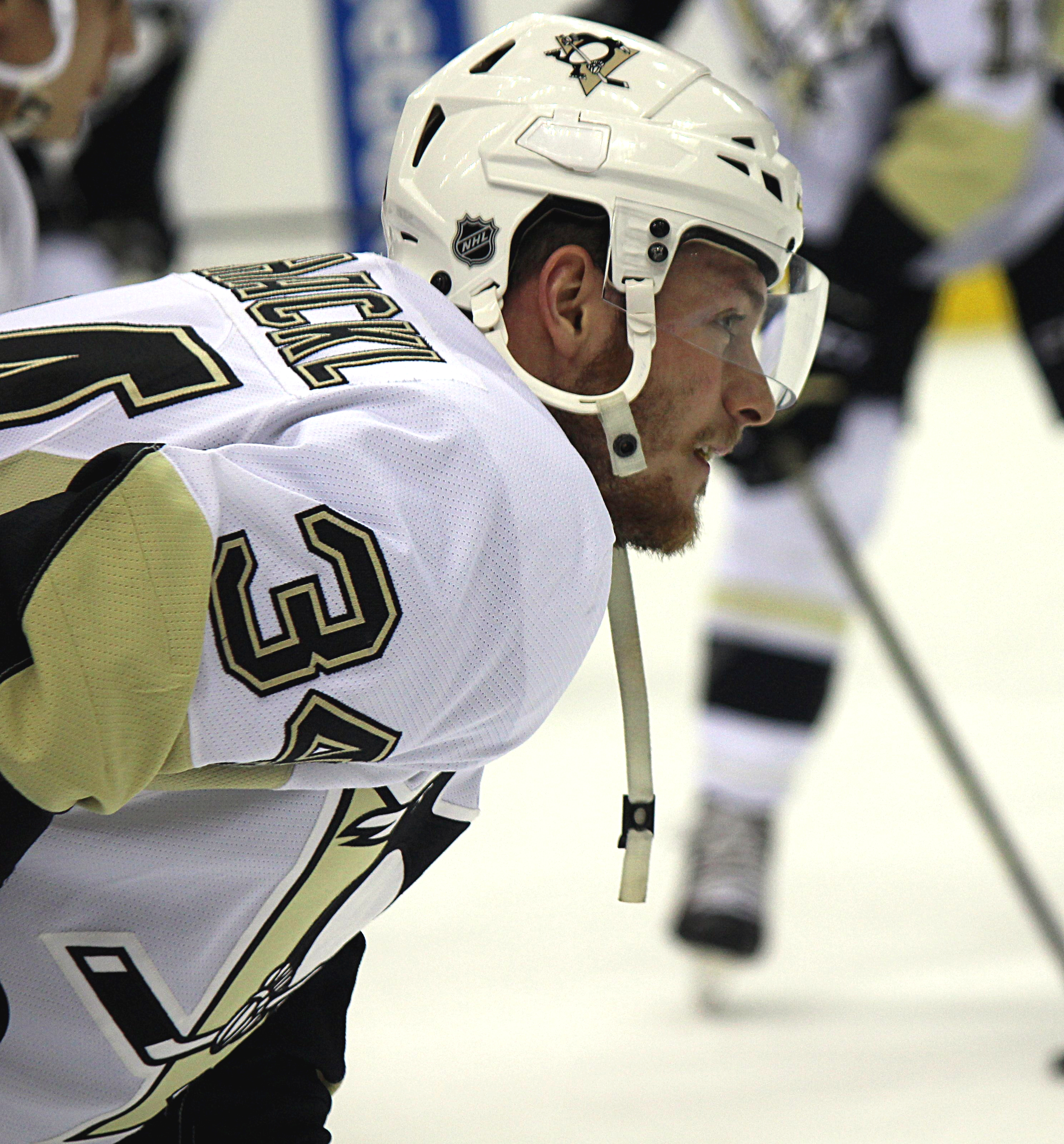 Pittsburgh Penguins forward Tom Kuhnhackl warms up prior to a game against the Washington Capitals, March 1, 2016, at Verizon Center in Washington, D.C.